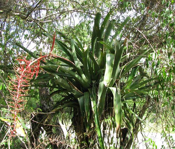 An Aechmea bromeliad flowering in the Yucatán. This one is probably Aechmea bracteata due to it having a large branched inforescence with red bracts near its base.